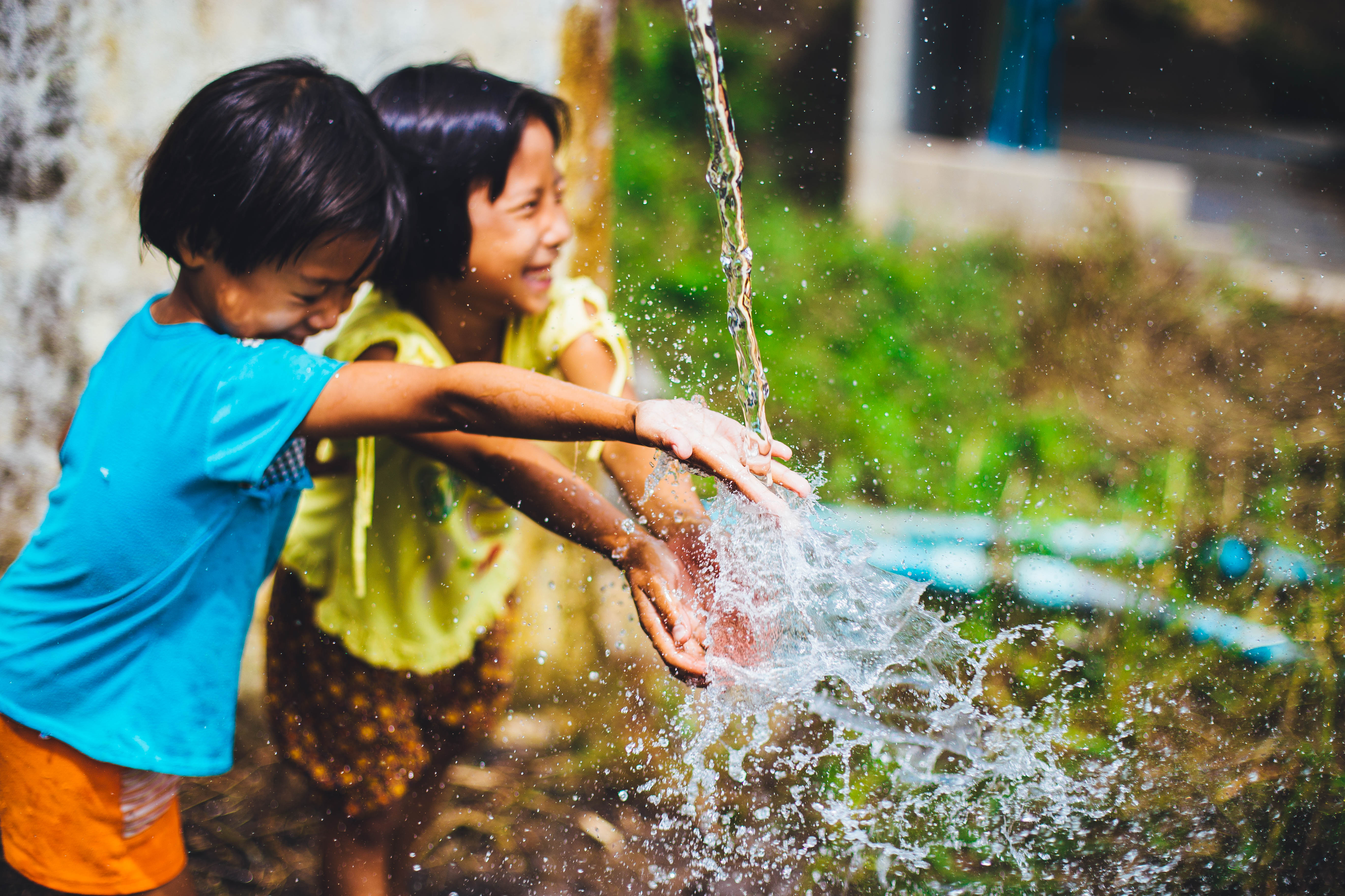 Chiang Mai, Pa Daet, Thailand